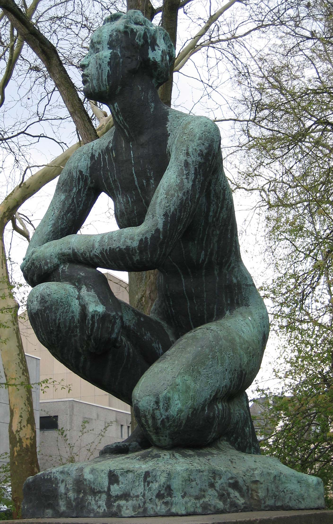 kneeling woman, sculpture by Georg Kolbe, German artist